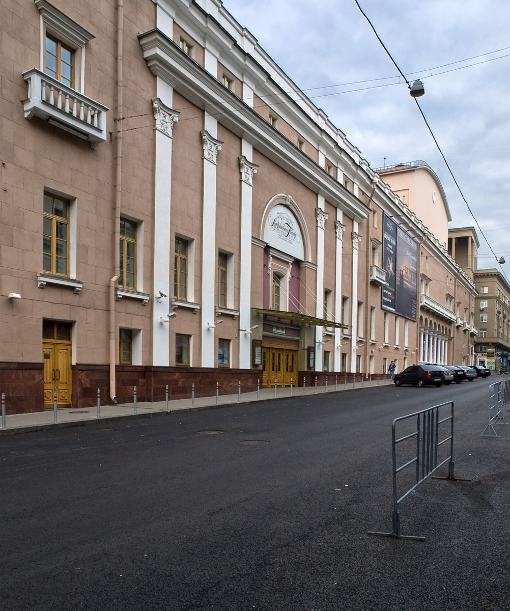 17, Bolshaya Dmitrovka St., Moscow. Stanislavsky and Nemirovich-Danchenko Musical Theatre.